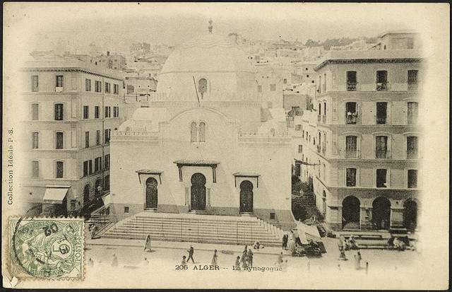 Postcard of Algiers — showing a synagogue in Algeria in 1902. Creator Idéale Date 1902 Accession number ZPC2 A1A4 Featured in the exhibition, Walls of Algiers: Narratives of the City, May 19 - October 18, 2009 at the Getty Research Institute. Part of the Cities and Sites Postcard collection in the Getty Research Institute Library's special collections. View the library record for this collection.